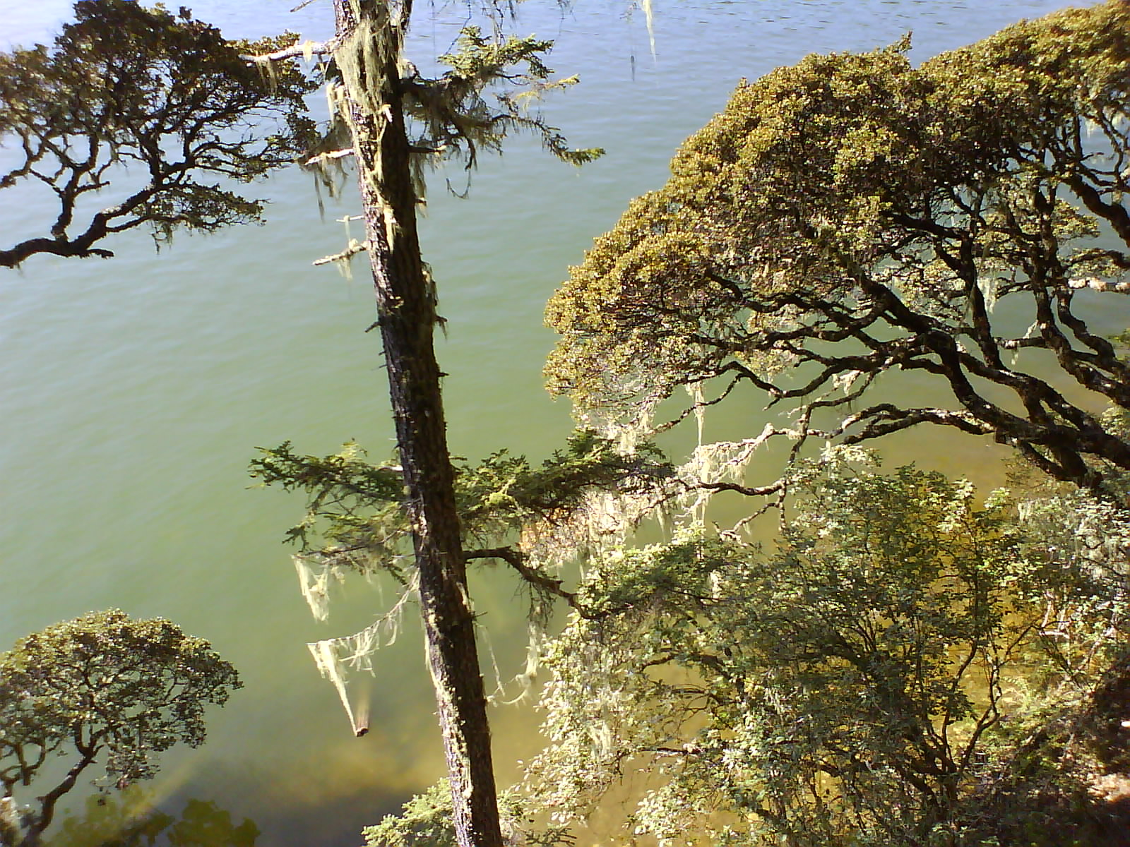 "Beard" trees (Abies sp., invaded by lichens) at 3700 m high, at the bank of the Shudu Lake in Pota tso natural reserve national park , in Shangri-La Xian, Tibetan autonomous prefecture of Deqin, on Tibet plateau part of Yunnan province, People Republic of China.